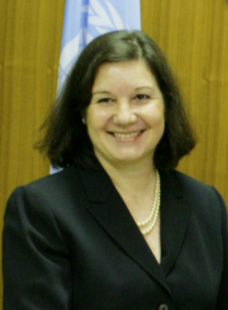 H.E. Ambassador Maria Luiza Ribeiro Viotti, Permanent Representative of Brazil to the United Nations.